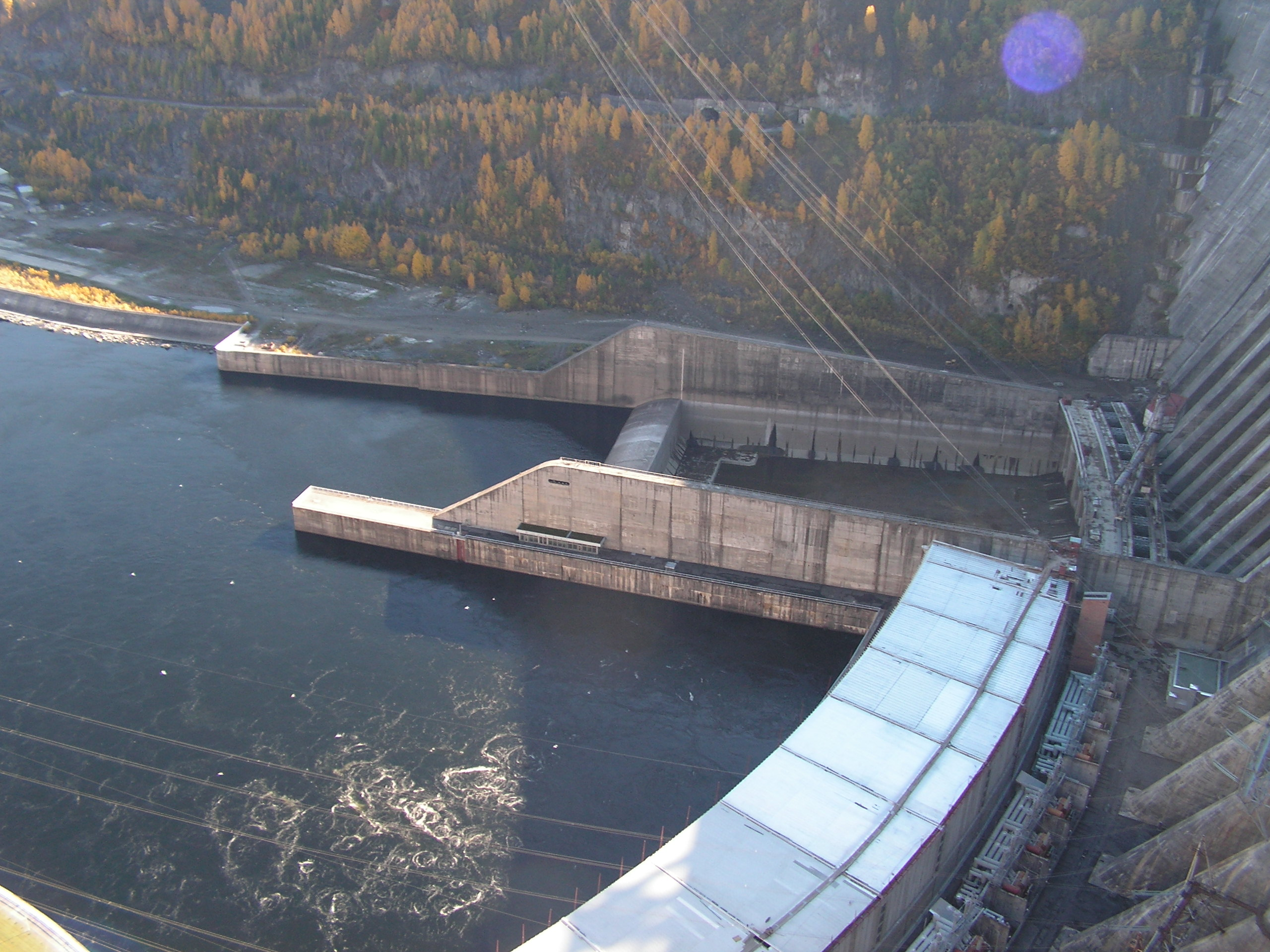 Sayano–Shushenskaya hydroelectric power station